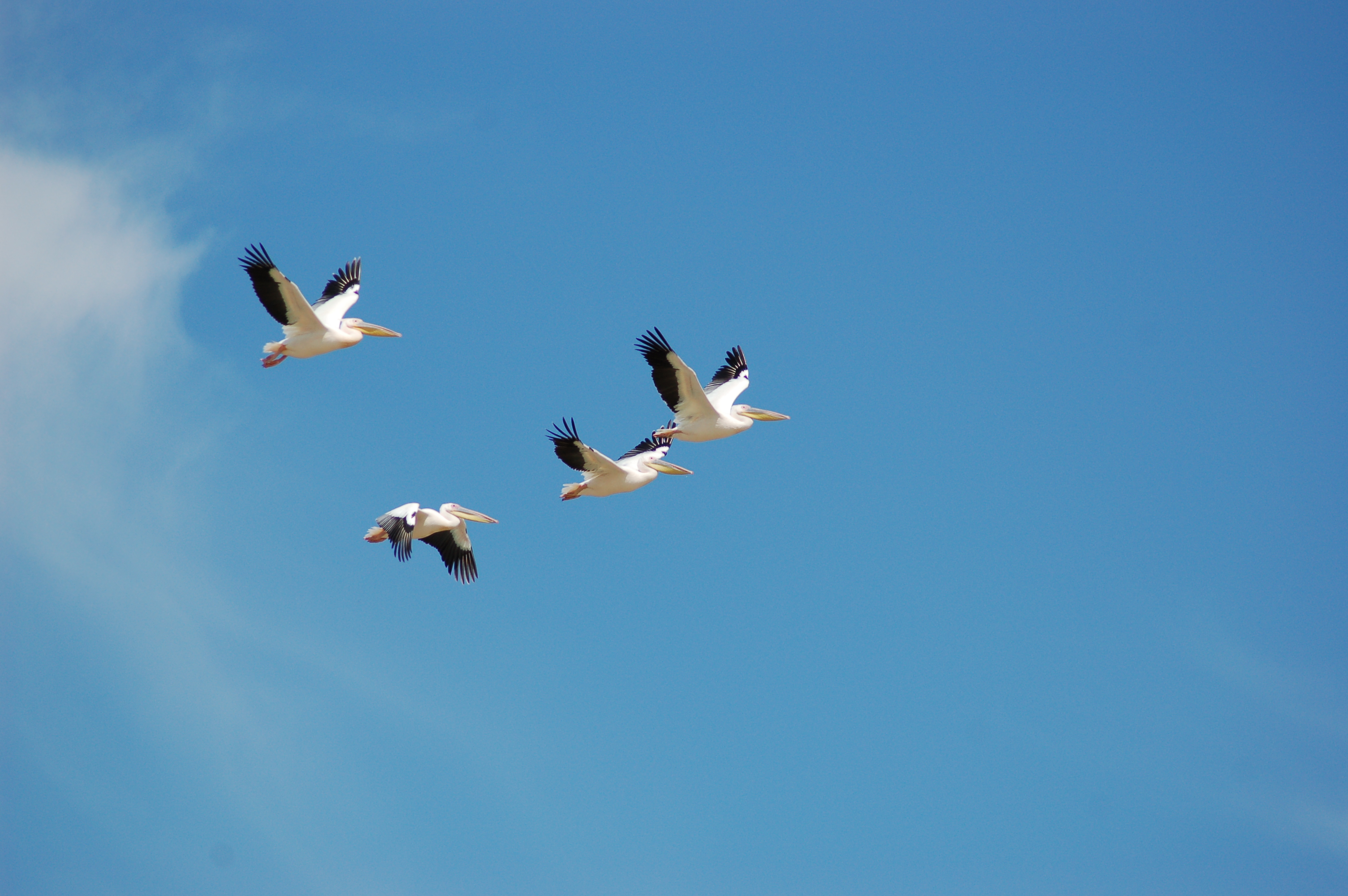 Great White Pelicans flying in Nata Bird Sanctuary, Botswana.